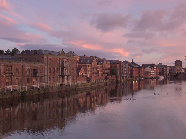 Dawn over the River Ouse